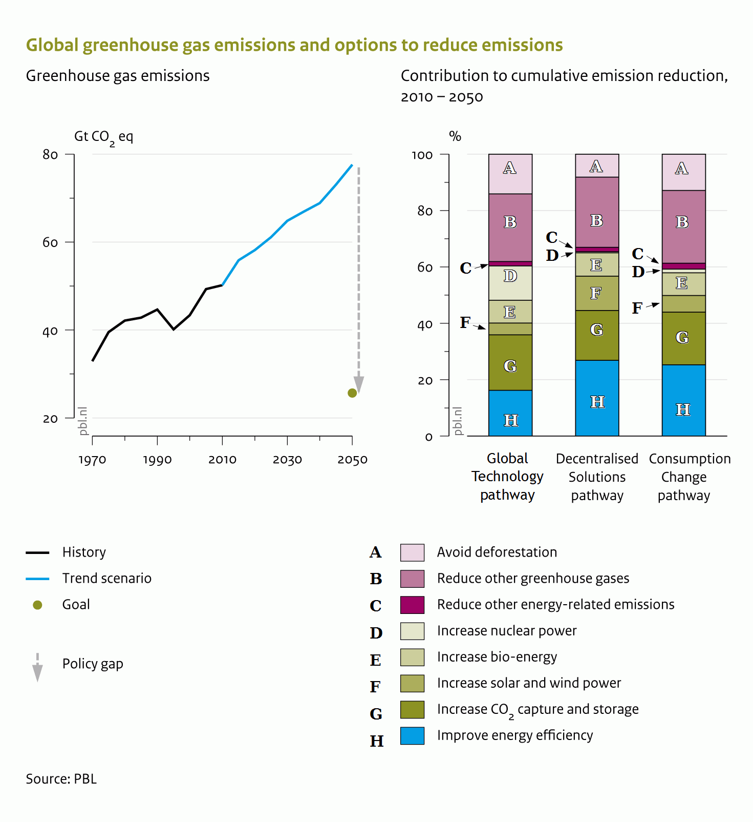 This image shows two graphs. The graphs show how global warming could be limited to below 2 degrees Celsius, relative to the pre-industrial level. Greenhouse gas emissions The graph on the left shows how global greenhouse gas (GHG) emissions (measured in carbon-dioxide equivalents, CO2e) need to be reduced to around 20-25 gigatonnes (Gt) CO2e per year, by 2050 (PBL, 2012, p.156). This is equivalent to a reduction in 2050 of between 40-60%, compared to 1990 emissions levels (PBL, 2012, p.157). The graph shows how emissions are projected to grow in a trend scenario to 60-70 GtCO2e per year, by 2050 (PBL, 2012, p.156). Under the trend scenario, global temperature in 2100 would increase by 2.5-5 °C (PBL, 2012, p.156). In other words, meeting the 2 °C target would require drastic emissions reductions compared to the trend scenario. Contribution to cumulative emission reduction, 2010-2050 The graph on the right shows how the 2 °C target might be achieved. The graph shows three "pathways" to meet the 2 °C target, labelled "global technology", "decentralised solutions", and "consumption change". Each pathway shows how various measures could contribute to emissions reductions. These are: (A) avoid deforestation (B) reduce other (non-CO2) GHGs (C) reduce other energy-related emissions (D) increase nuclear power (E) increase bio-energy (F) increase solar and wind power (G) increase CO2 capture and storage (H) improve energy efficiency For all three pathways, (B), (G) and (H) all make significant contributions to emissions reductions. Below are the approximate contributions of (A)-(H) to the three pathways. Units are the percentage contribution to cumulative emission reduction between 2010-2050. The first number is the "global technology" pathway, the second "decentralised solutions," and the third "consumption change." (A) 14, 8, 13 (B) 24, 25, 26 (C) 3, 2.5, 2.5 (D) 12, 1, 1.5 (E) 8, 7, 8 (F) 4, 12, 6 (G) 20, 17, 18.5 (H) 17, 27, 25